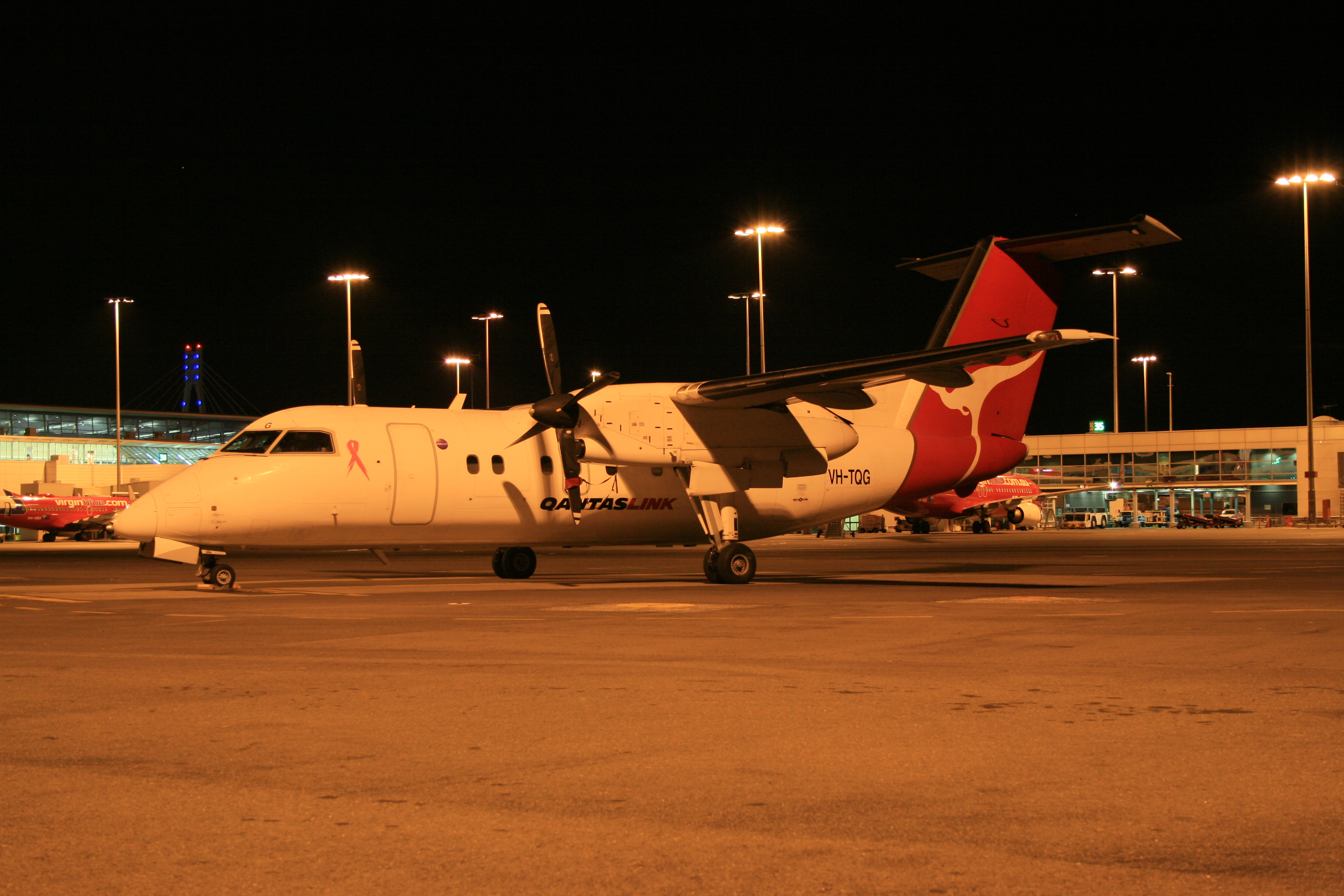 An Eastern Australia Airlines de Havilland Canada Dash 8 overnighting at the airline's Sydney hub. Digital image of DHC-8-201 VH-TQG taken by YSSYguy at Sydney Airport on 15 October 2007, and uploaded for use in the Eastern Australia Airlines article.